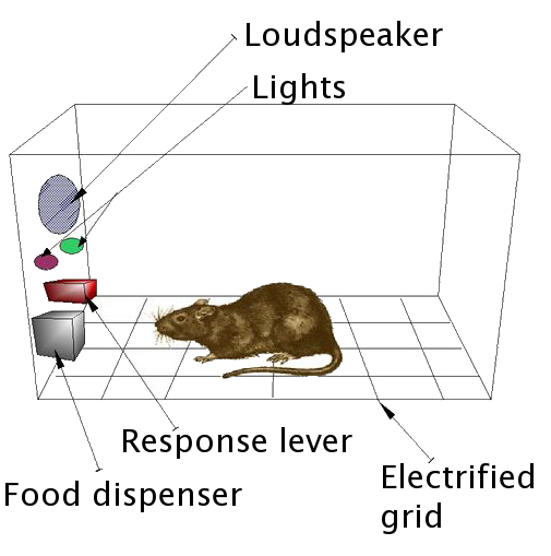 Skinner box, a cage to perform behavioural experiments with animals